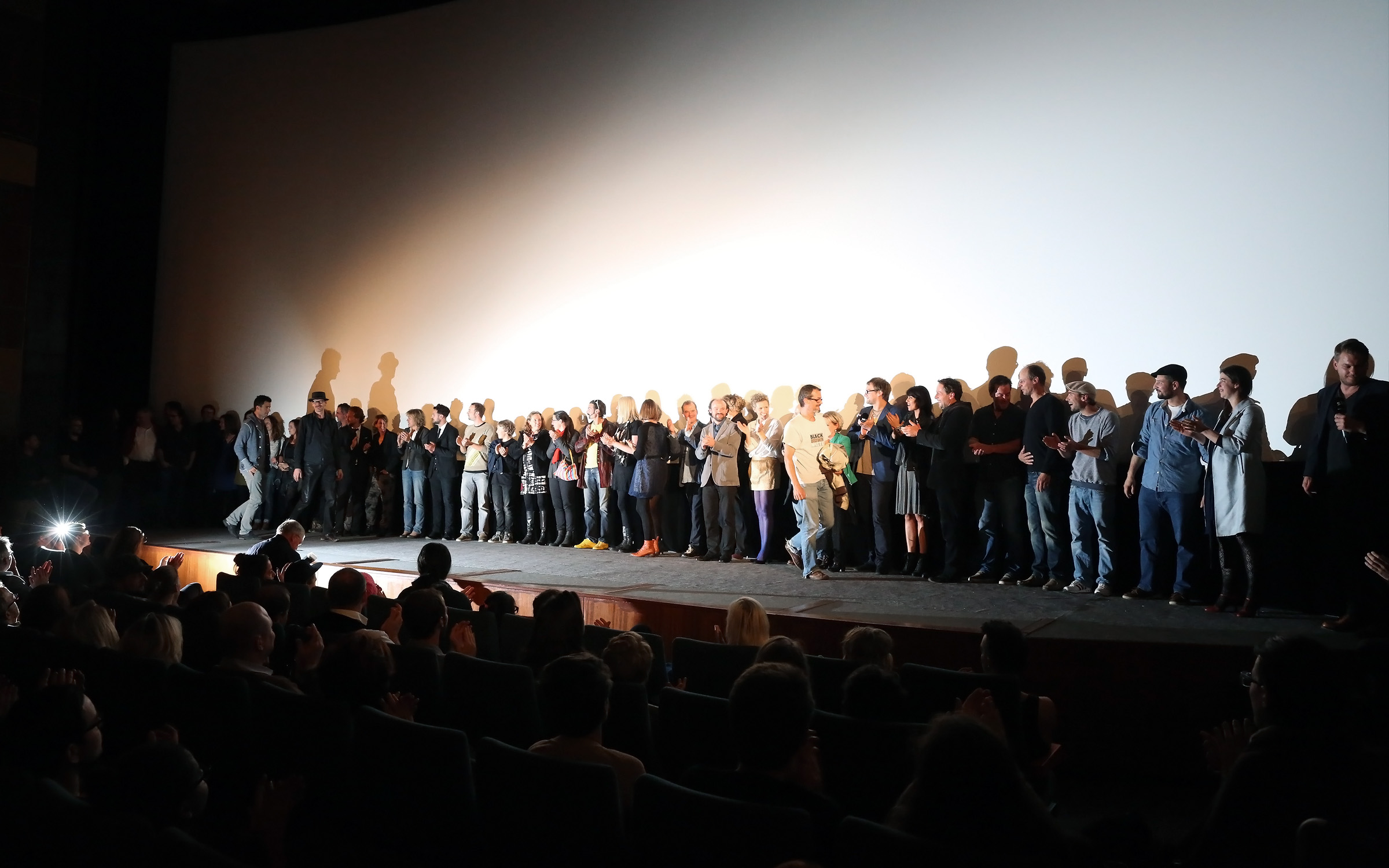 Opening of /slash Filmfestival 2013 with the Austrian premiere of Marvin Kren's movie Blood Glacier at Gartenbaukino (Vienna, Austria).